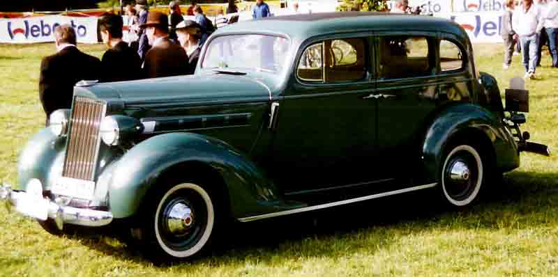 Packard Fifteenth Series Six 115-C 1082 4-Door Touring Sedan 1937